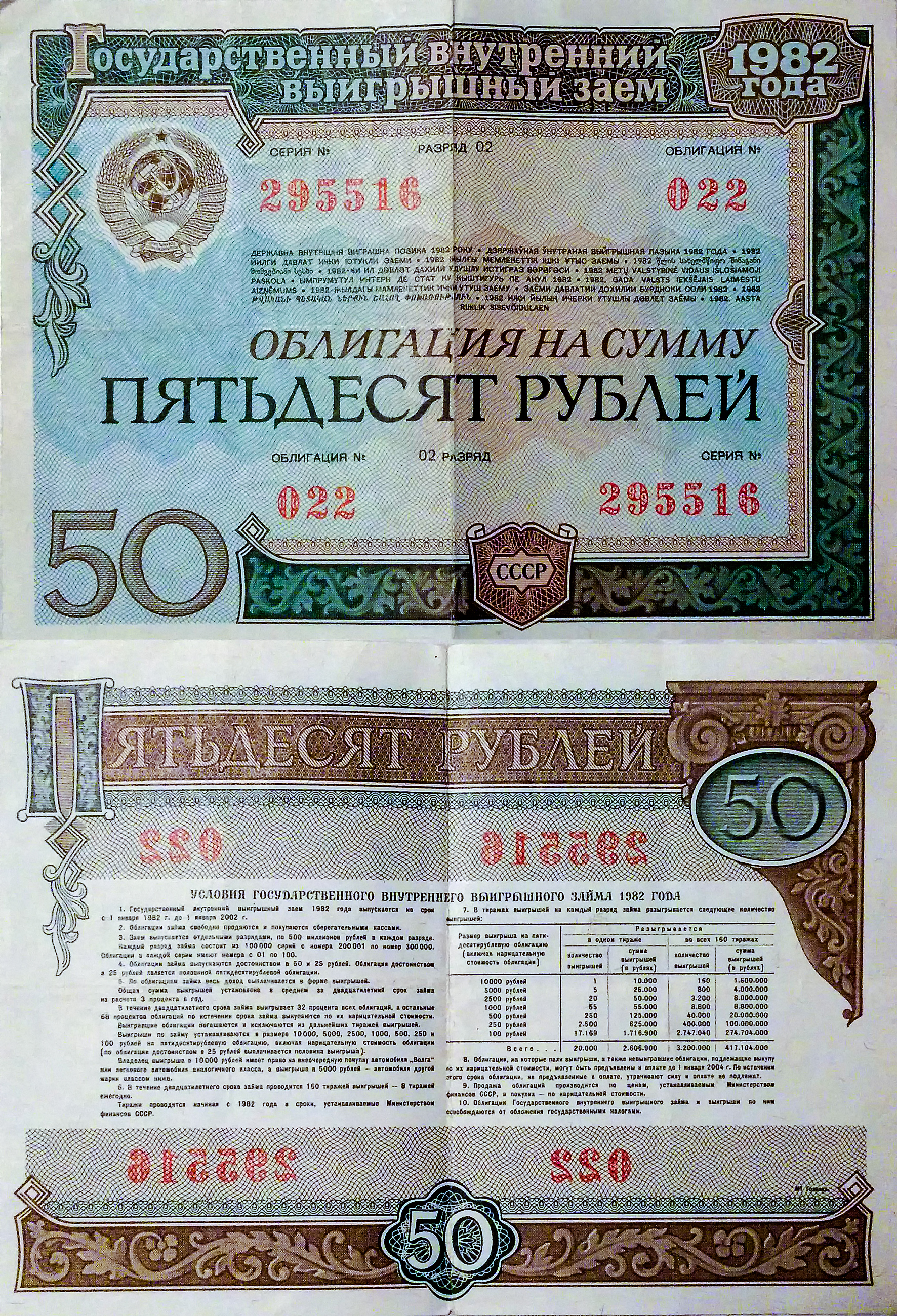 USSR internal bond front and back. Year 1982.